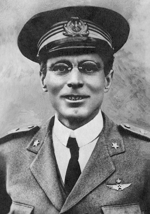 Italian colonel and explorer Umberto Nobile smiling. 1920s.